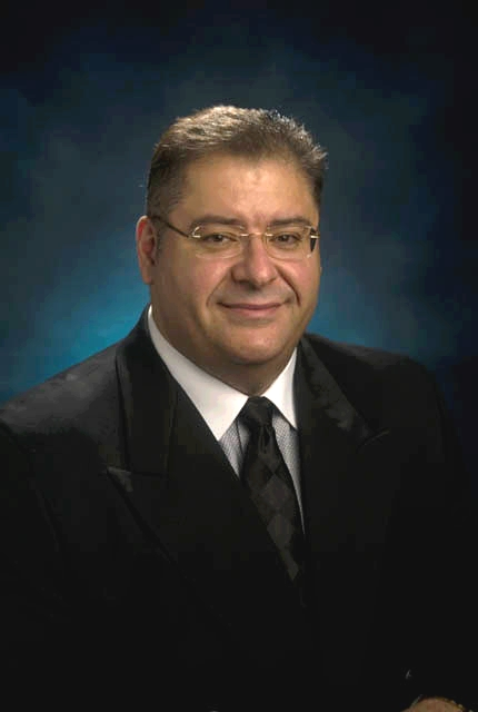 Khaled J. Saleh, BSc, MD, MSc, FRCS(C), MHCM